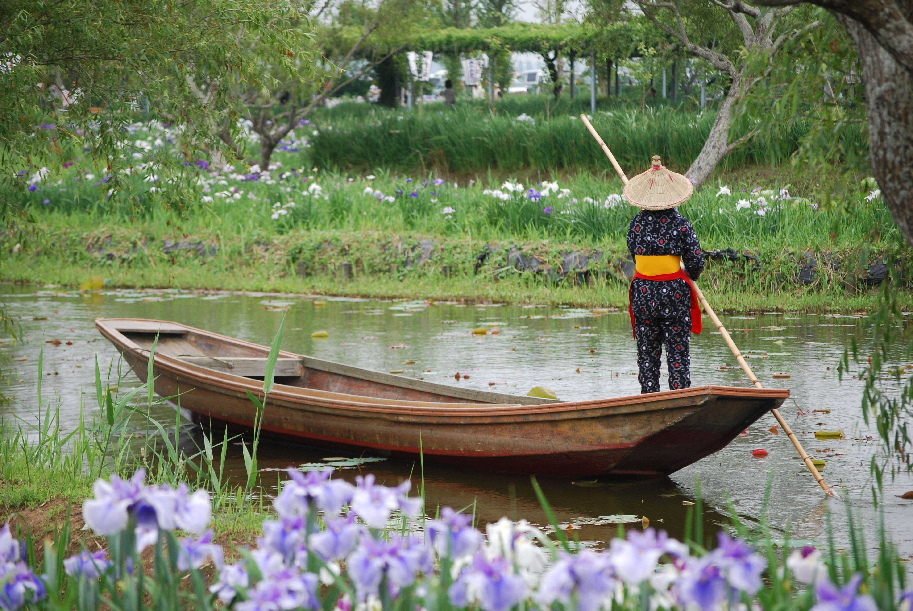 Sappa-bune,Small ship of the Suigo district,Katori-city,Japan